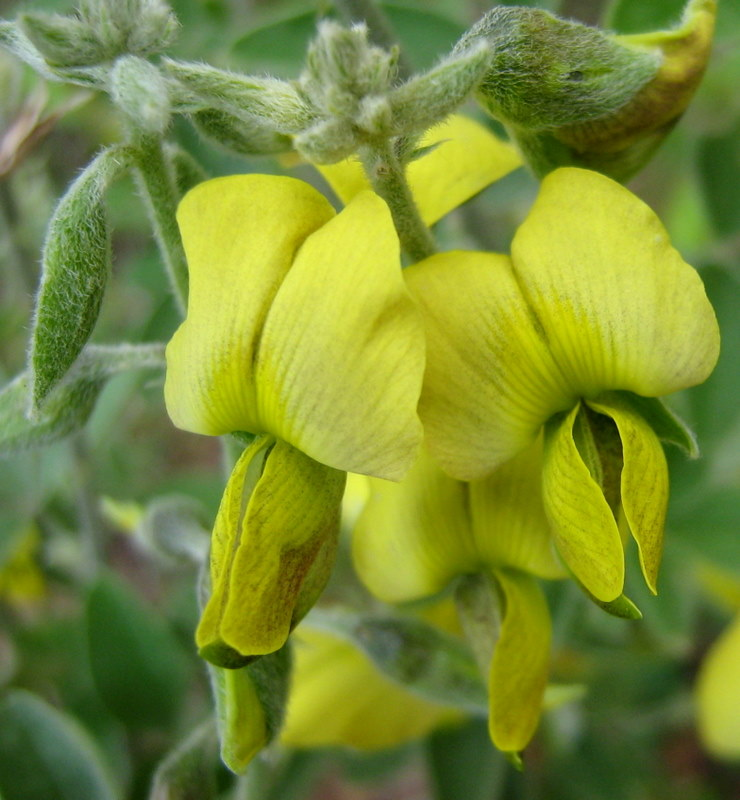 Crotalaria holosericea Nees & Mart.